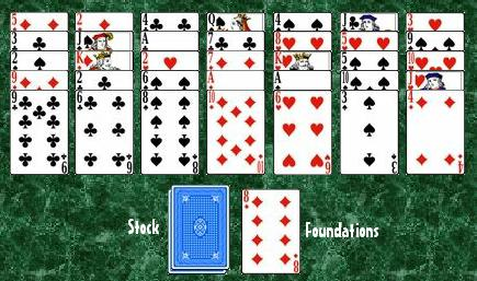 This is a diagram of the solitaire game of Golf, based on an actual layout. The image is made in Microsoft Paint and the cards used were based on the SVG Playing Cards.